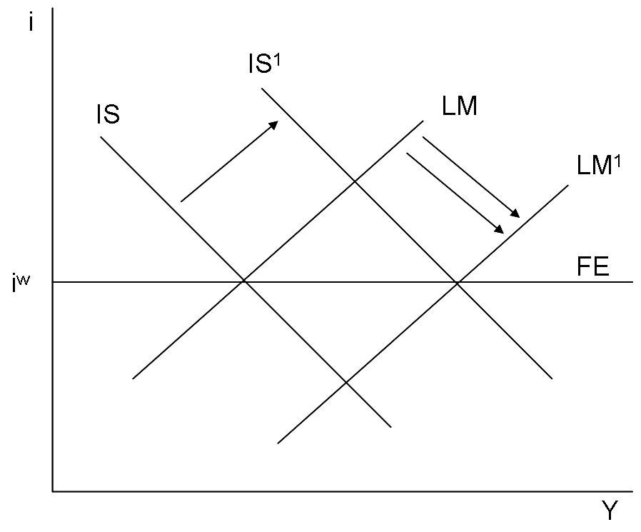 Example from the Mundell-Fleming model. An increase in IS when fixed exchange rate.